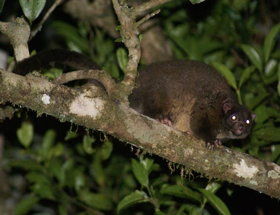 Lemur-like Ringtail Possum (also known as the Lemuroid Ringtail Possum or the Brushy-Tailed Ringtail) near Mareeba in Queensland, Australia.